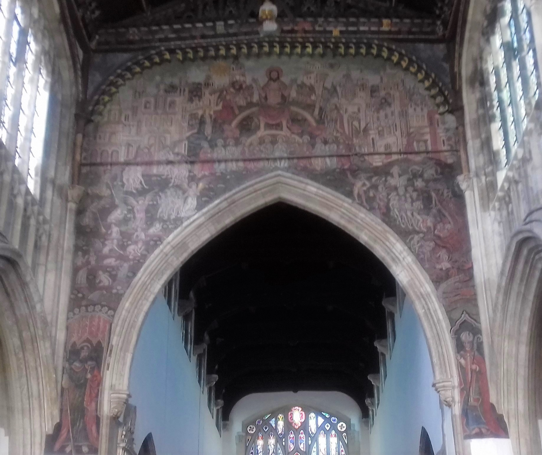 The 15th century Doom painting in St Thomas' church